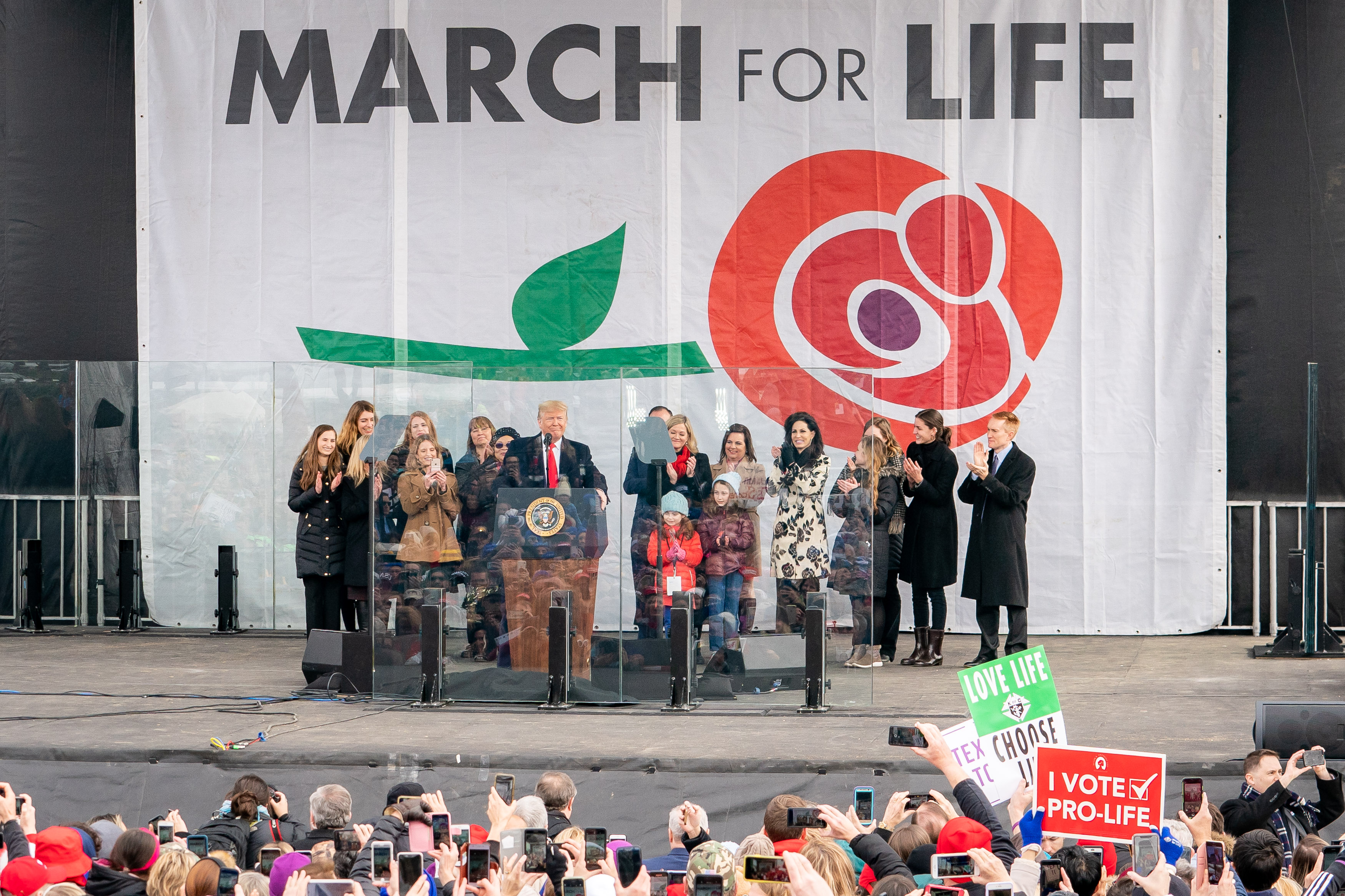 President Donald J. Trump delivers remarks at the 47th Annual March for Life gathering Friday, Jan. 24, 2020, at the National Mall in Washington, D.C. (Official White House Photo by Tia Dufour)